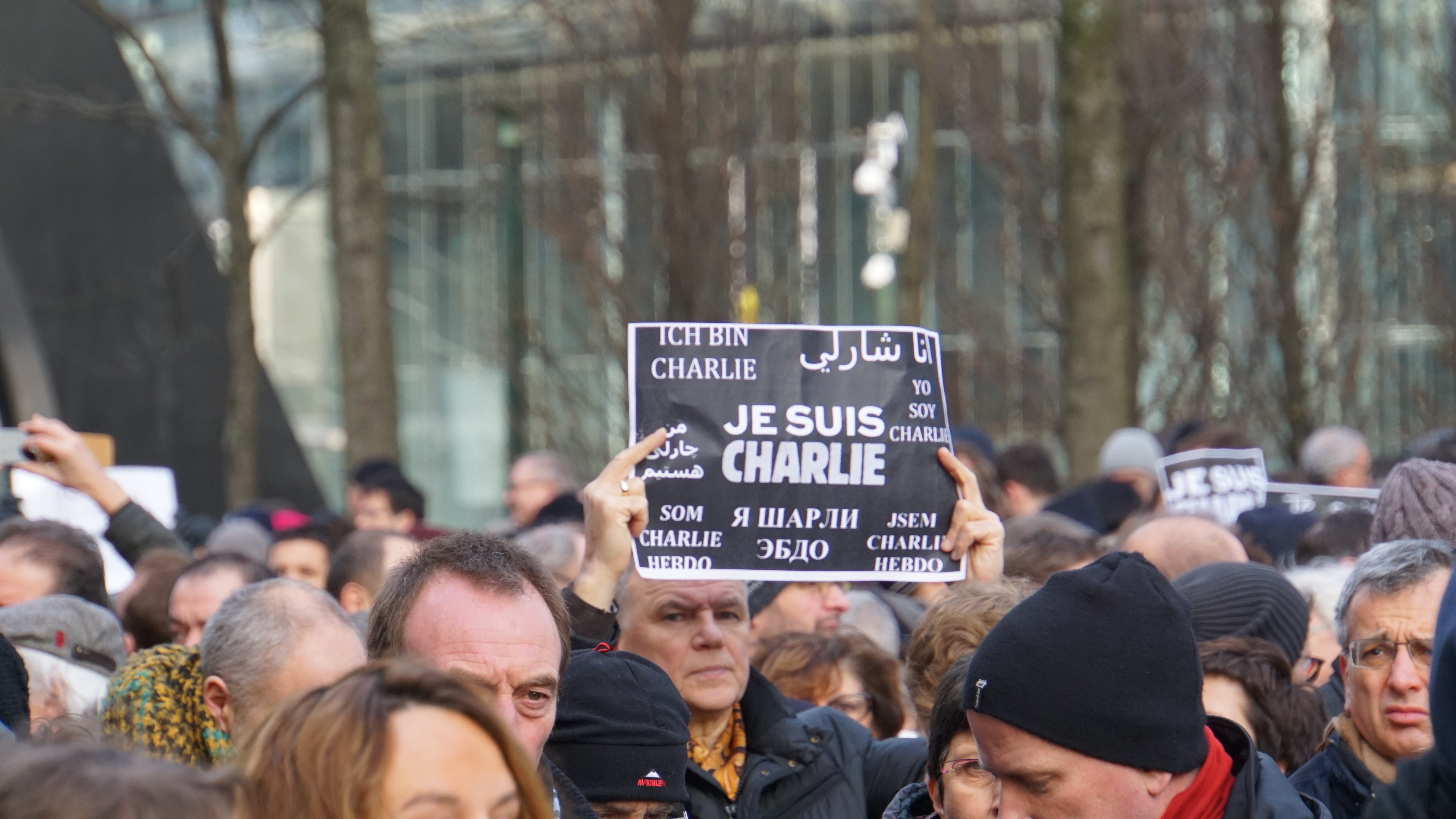 Brussels rally in support of the victims of the 2015 Charlie Hebdo shooting, 11 January 2015.